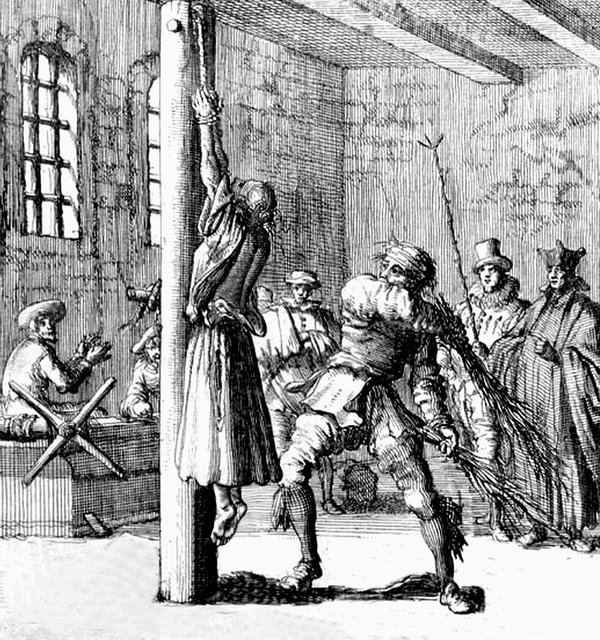 Torture of teacher Ursula, Maastricht, 1570, detail of a copper engraving by Jan Luyken (1649-1712) from Martyrs Mirror. Original plate is signed "Ian Luyken invenit et fecit".